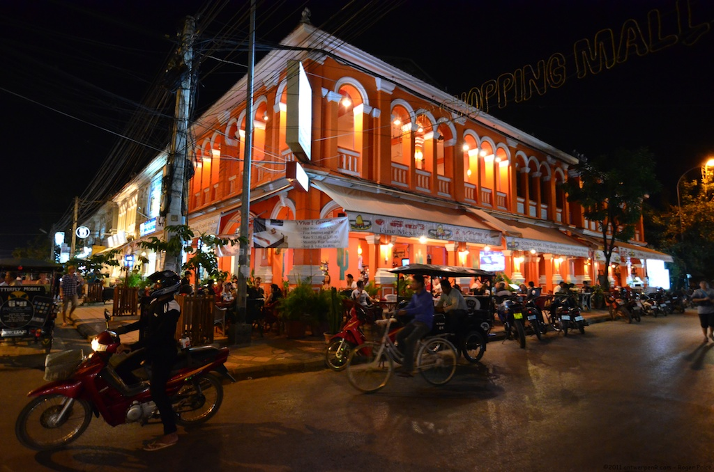 Busy restaurant in Siem Reap City